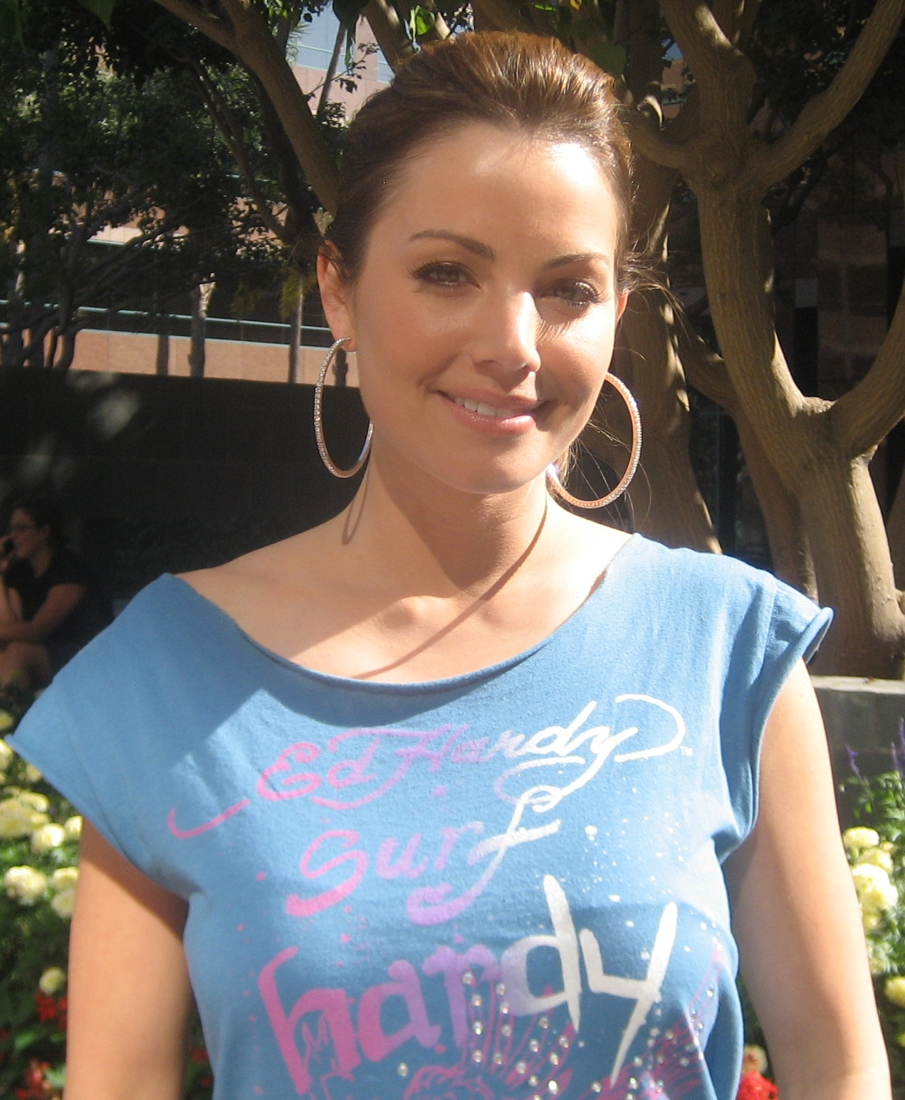 Smallville's Erica Durance, E! Building, Sept. 23, 2008